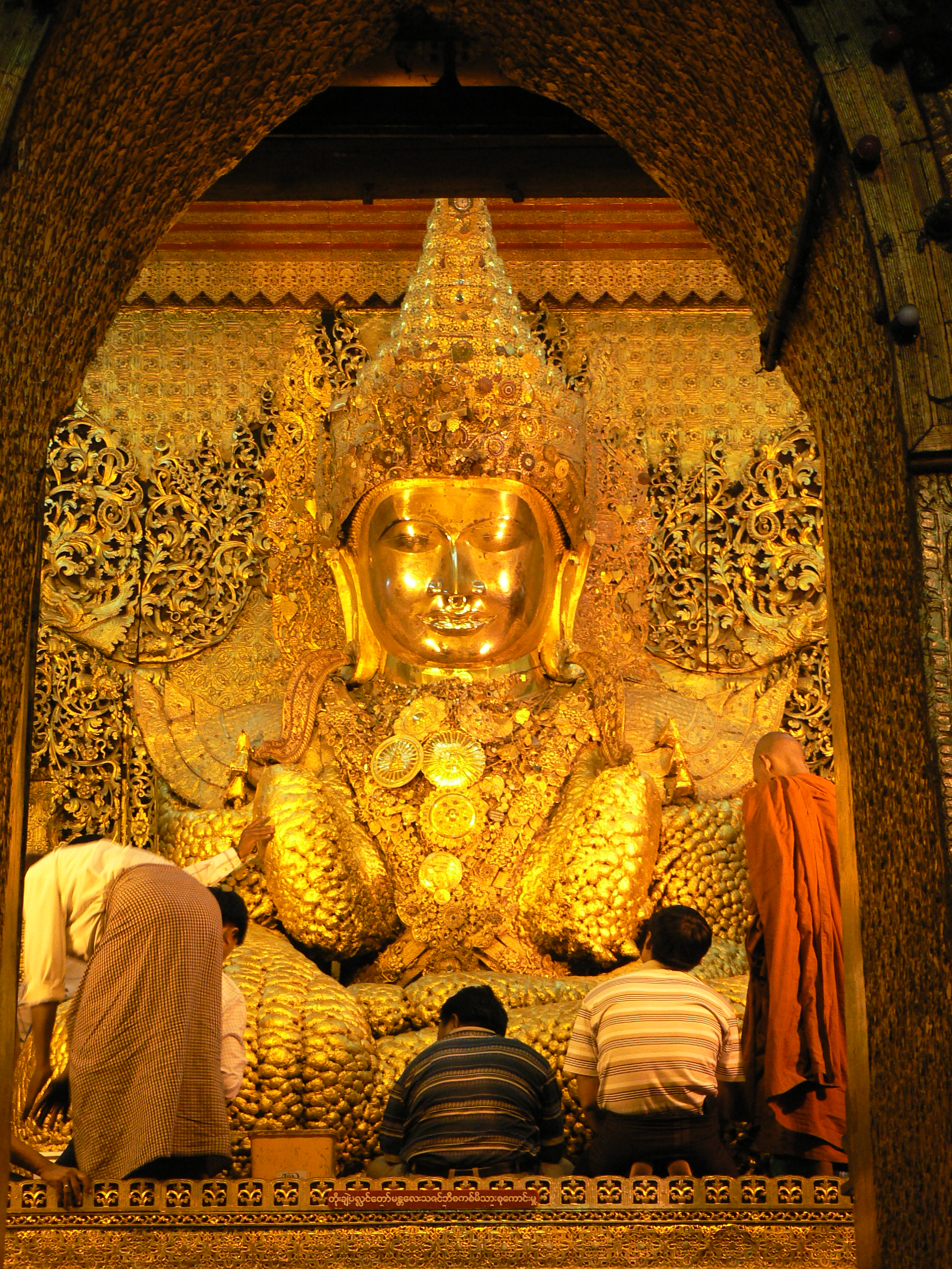 Mahamuni Buddha, Mandalay, Myammar